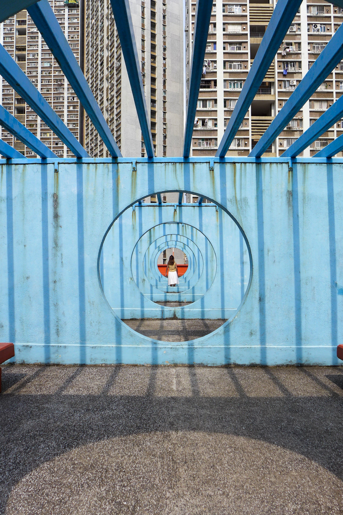 Lok Wah Estate Carpark Roof Pavilion